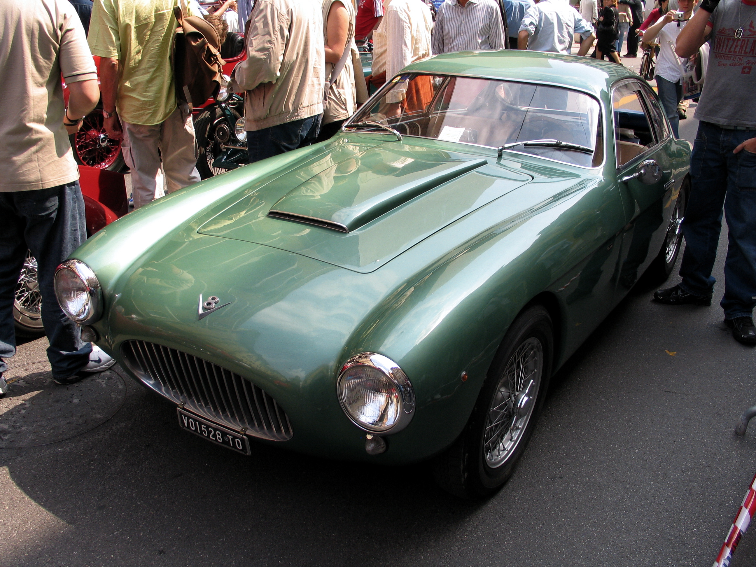 Fiat 8V Elaborata Zagato. Photographed in Brescia prior to Mille Miglia 2006 scrutineering.